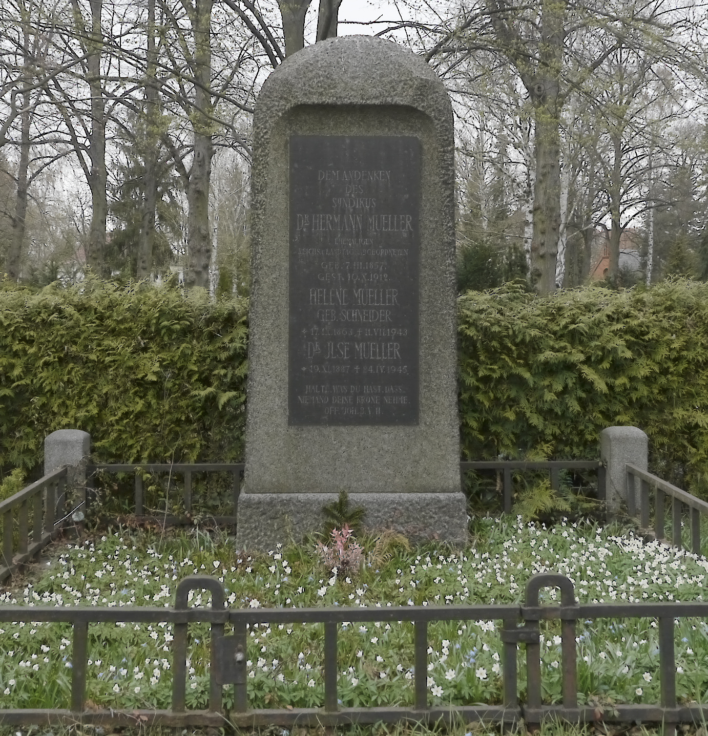 Tomb of Hermann Mueller in Berlin-Lankwitz